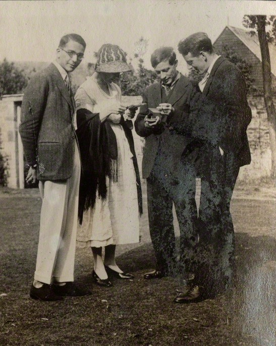 Lady Ottoline Morrell (1873-1938), vintage snapshot print/NPG Ax141298. Jean de Menasce; Vanessa Bell (née Stephen); Duncan Grant; Eric Siepmann, 1922